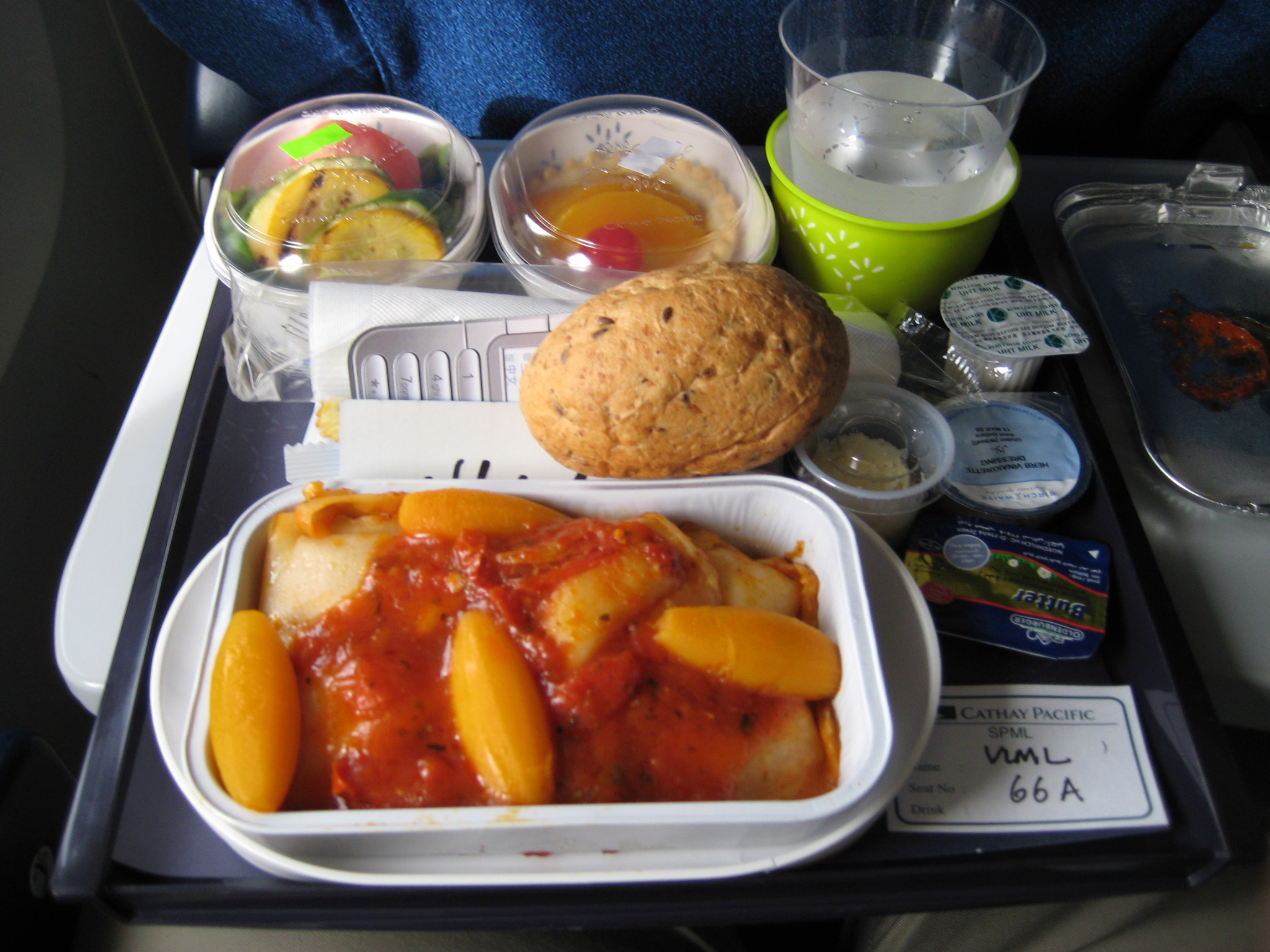 Airline meal(Western Vegetarian) on the flight of Hong Kong - Tokyo, Y class, Cathay Pacific.